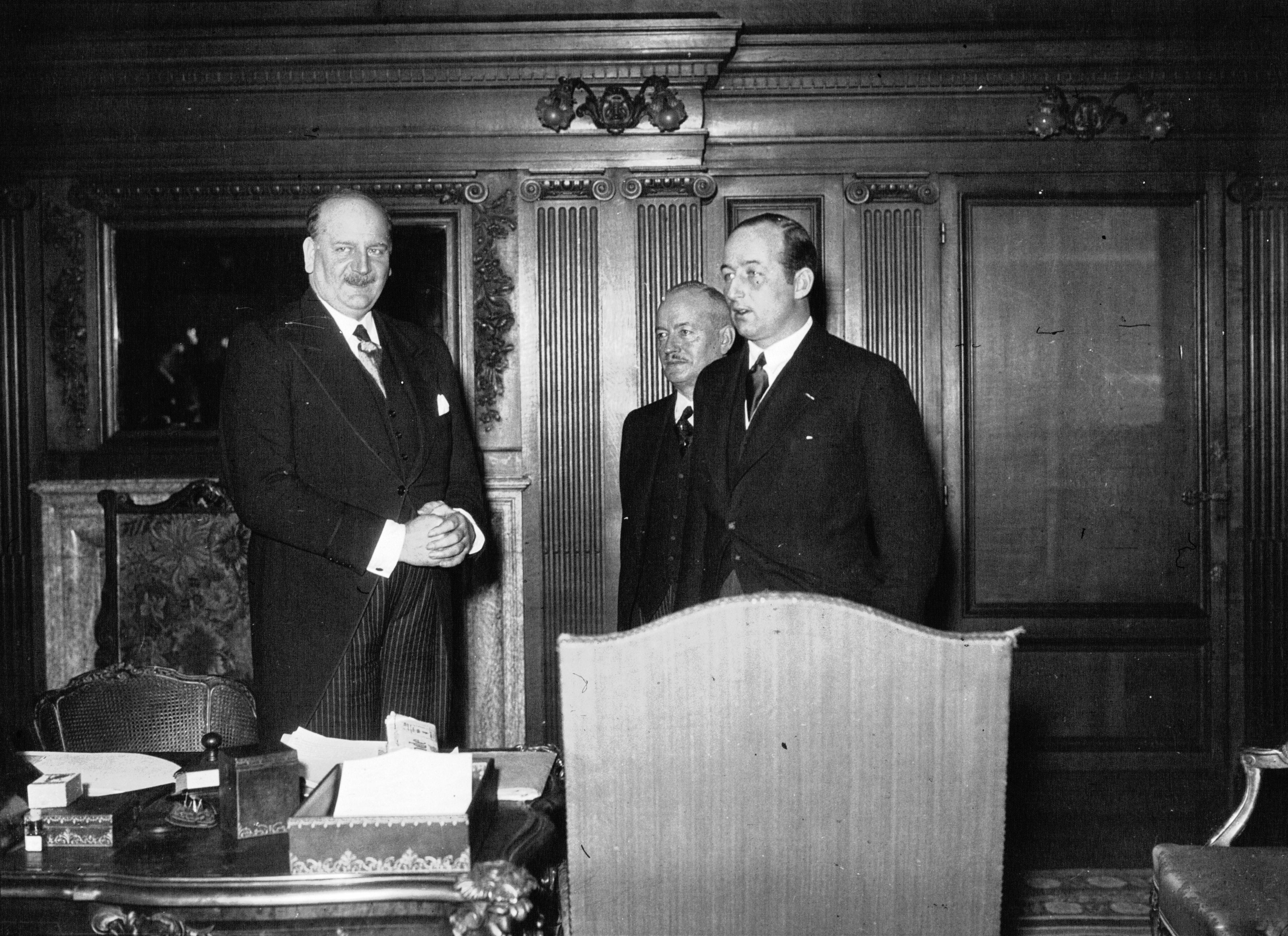 M. Flandin et le Prince Starhemberg aux Affaires Etrangères